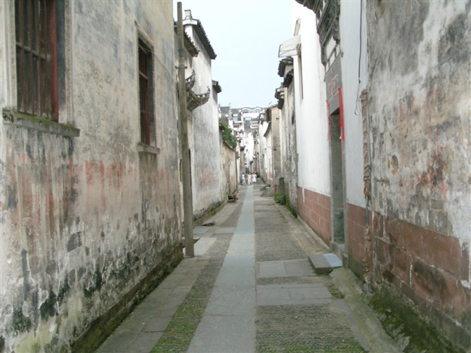 Dou Shan Street, a tourist spot